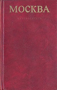 I. Myachin. Guidebook. 1973